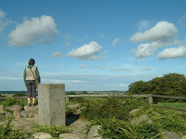 a view from the 169 m high Bungsberg direction northeast